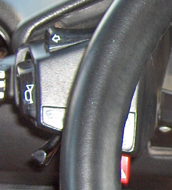 detail of a Citroen CX dashboard (only operating satellite)